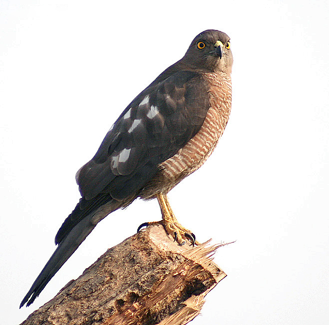 Shikra Accipiter badius at Hodal in Faridabad District of Haryana, India.